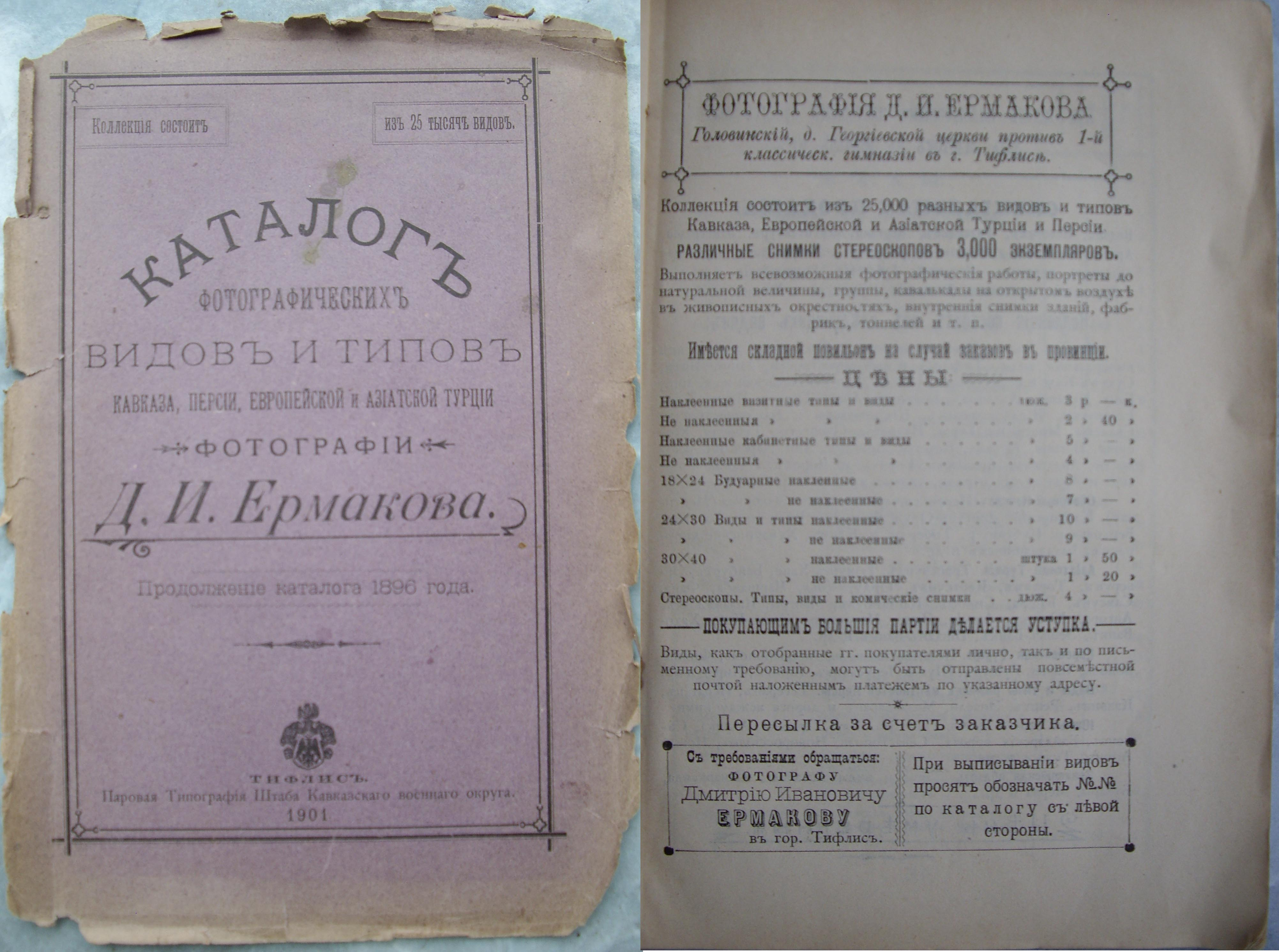 2-nd Cataloge of Dmitry Ermakov phtostream